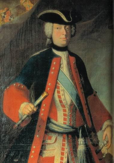 Portrait Joseph Frederick Ernest, Prince of Hohenzollern-Sigmaringen (1702-1769)